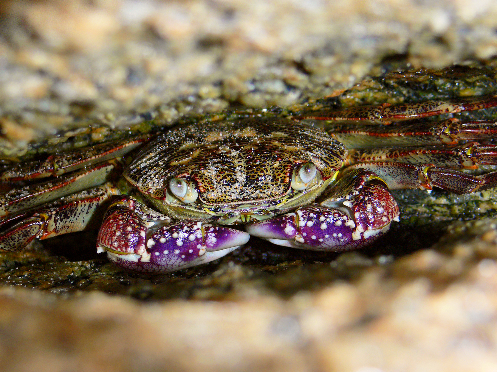 A Purple rock crab Leptograpsus variegatus . Taken in South-eastern Australia.